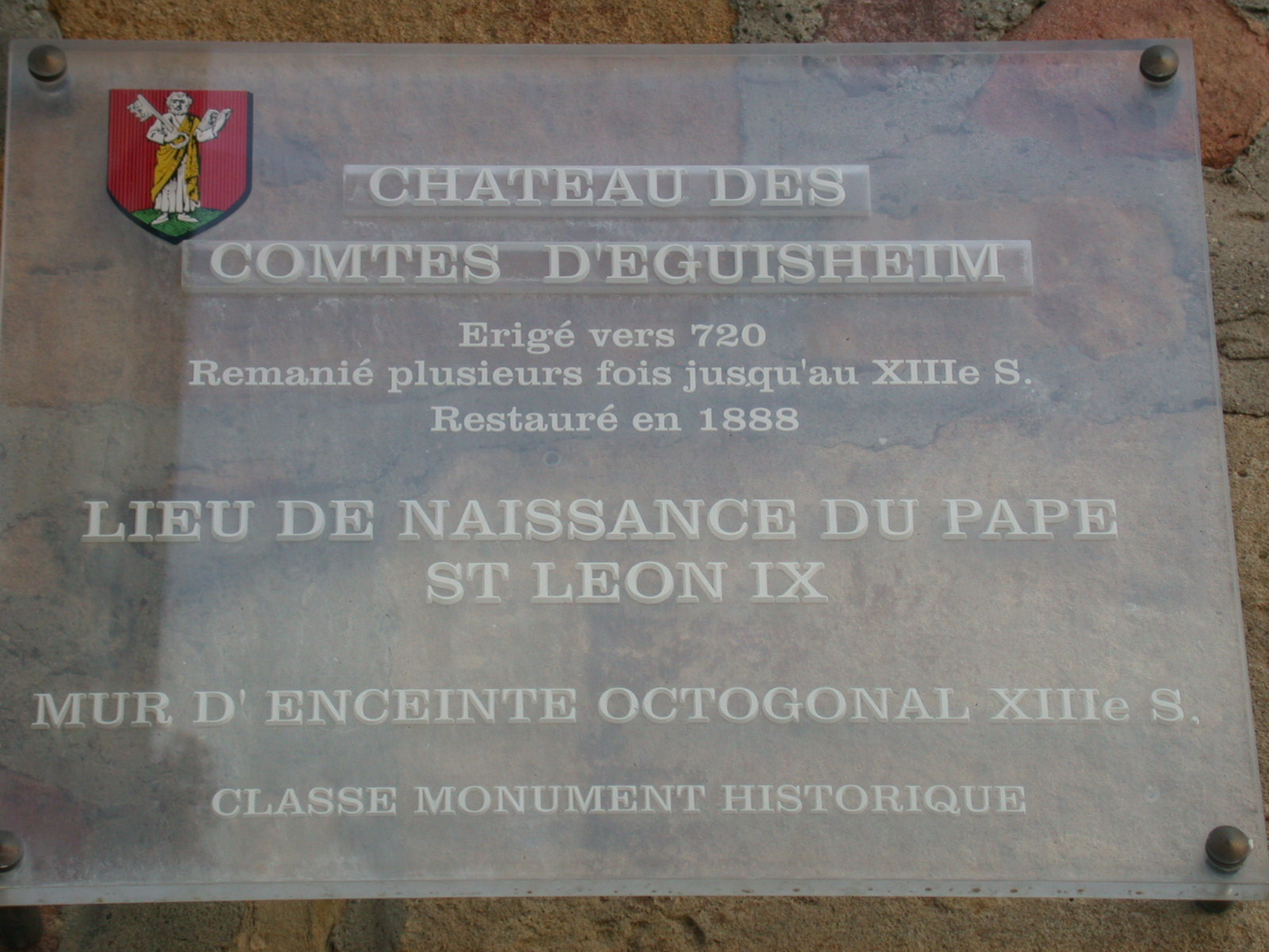 Comemorative shield on the wall of the Castle of Eguisheim, Alsace, birthplace of Pope Leo IX Credits : Photo taken by User:Mschlindwein, June 26, 2004